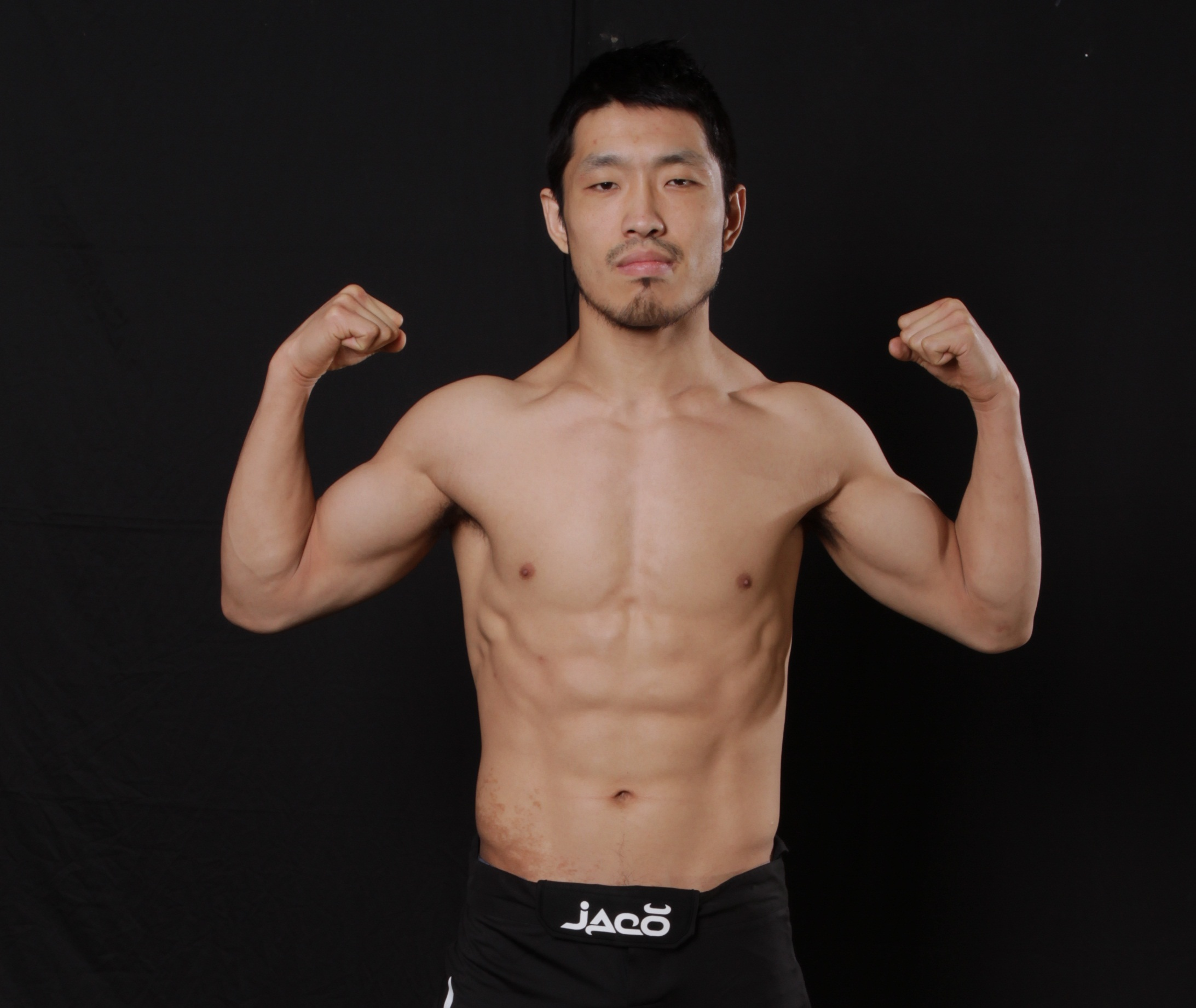 Korean featherweight MMA fighter Bae Young Kwon